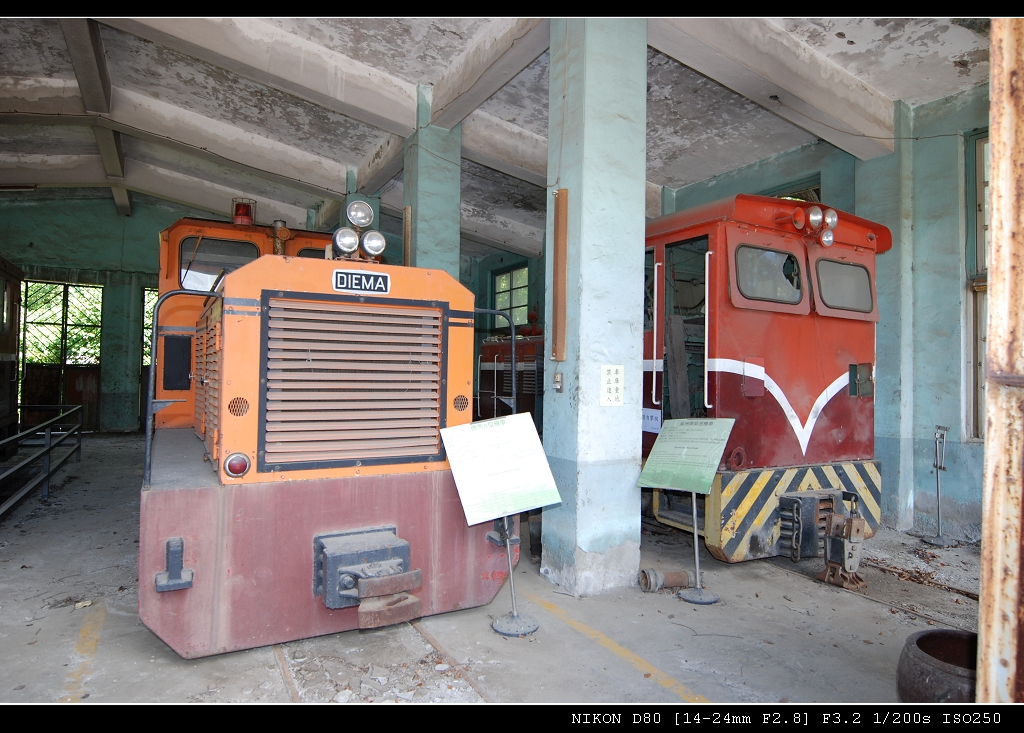 Diesel locomotives @ Taiwan Sugar Corporation Ciaotou Sugar Refinery